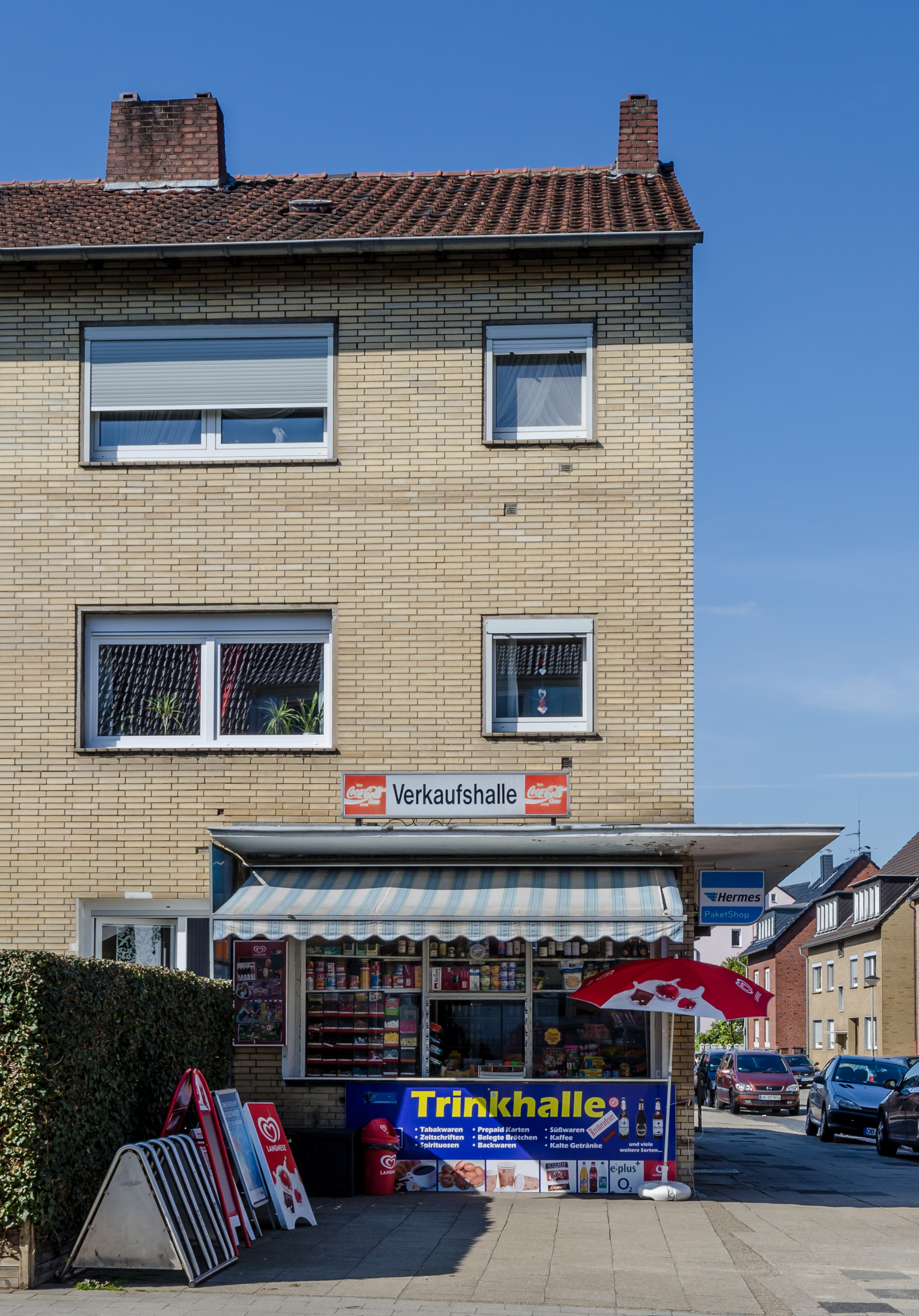 Kiosk in Oberhausen-Dümpten